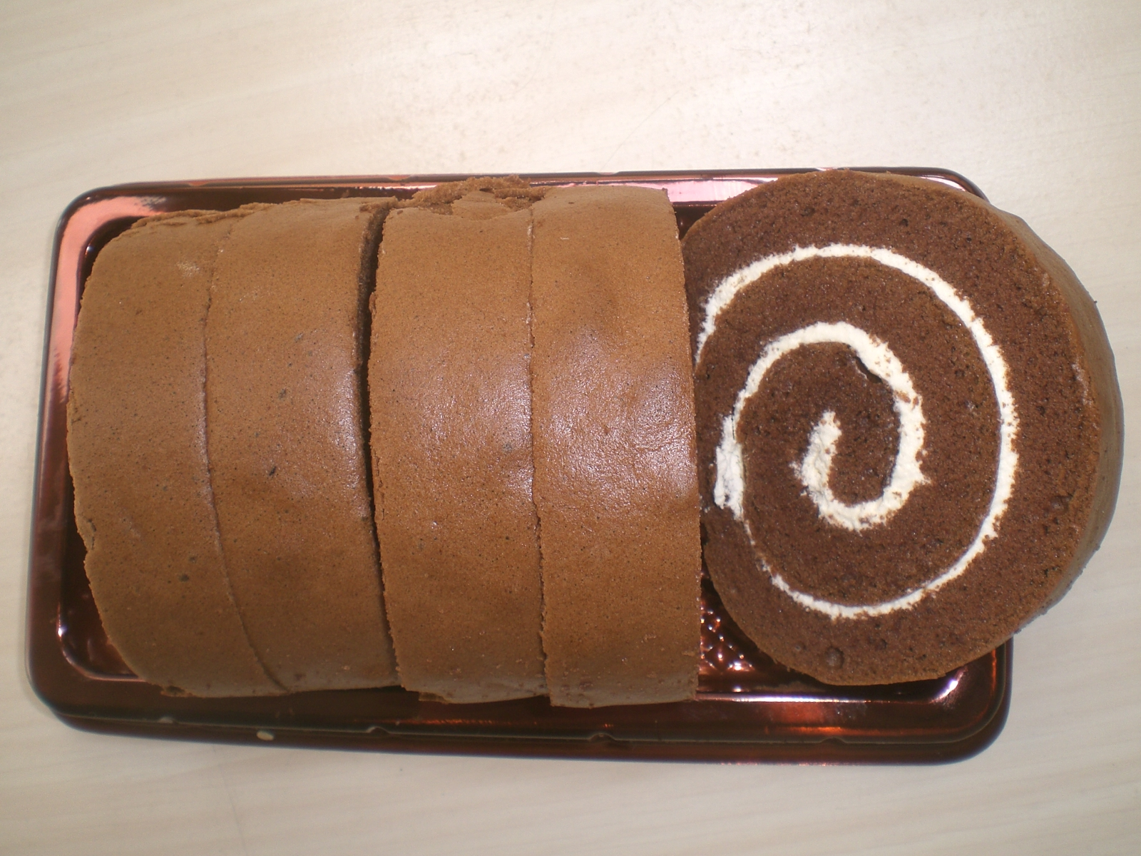 聖安娜餅屋西餅 - 黑森林蛋糕瑞士卷